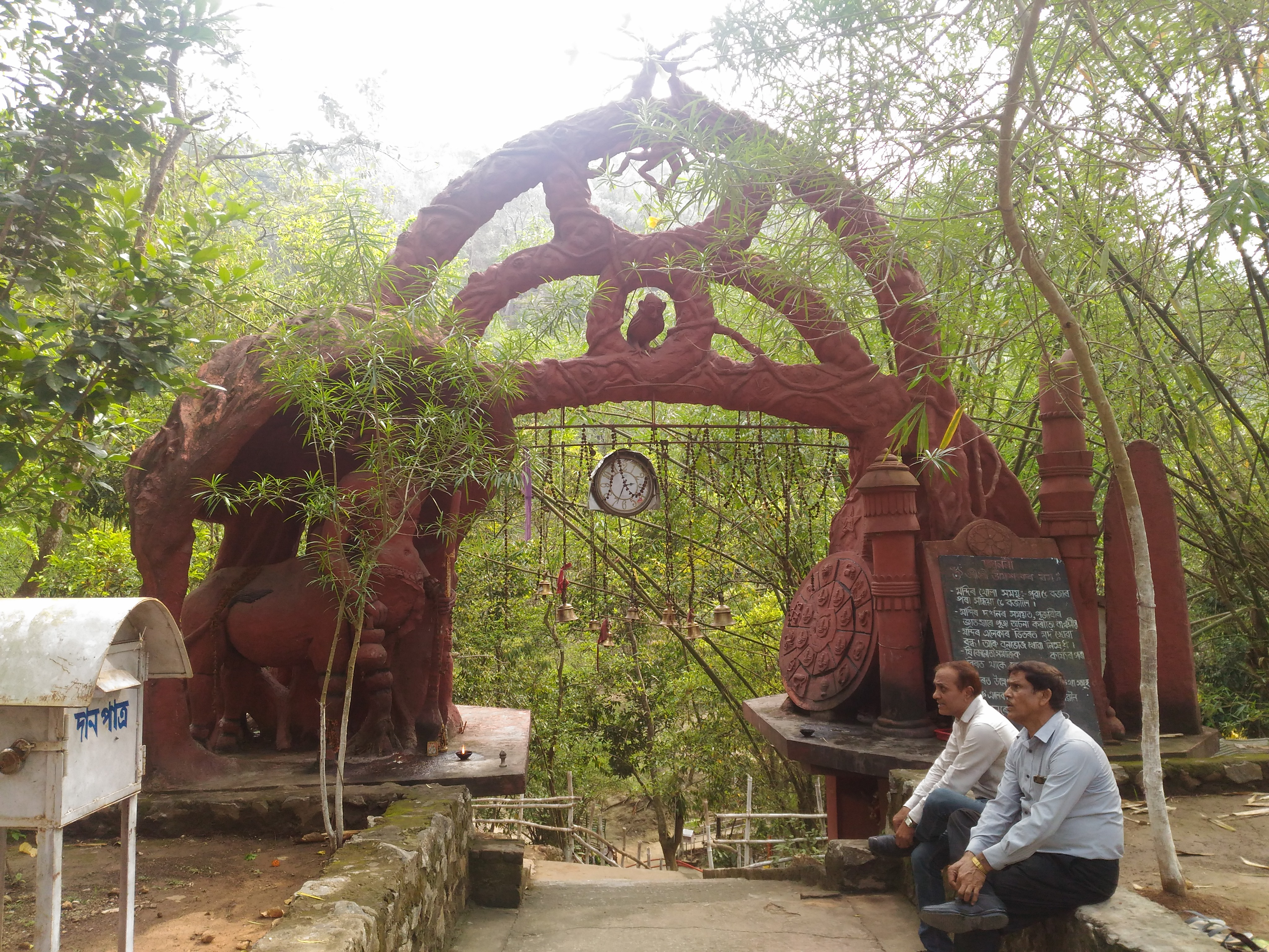 Main entry to Bhimeshwar Dham.